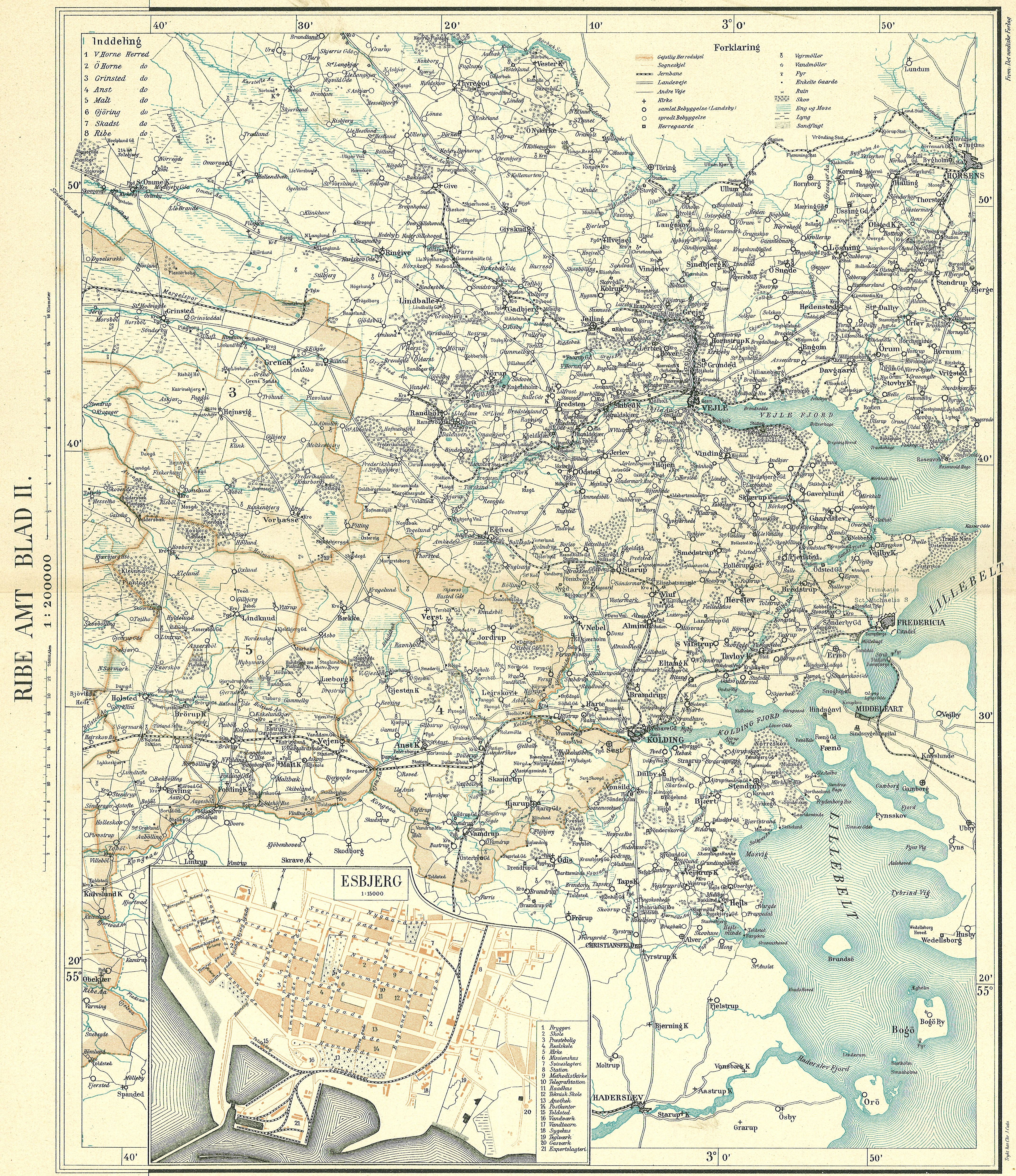 Map of the eastern part of Ribe County in Denmark